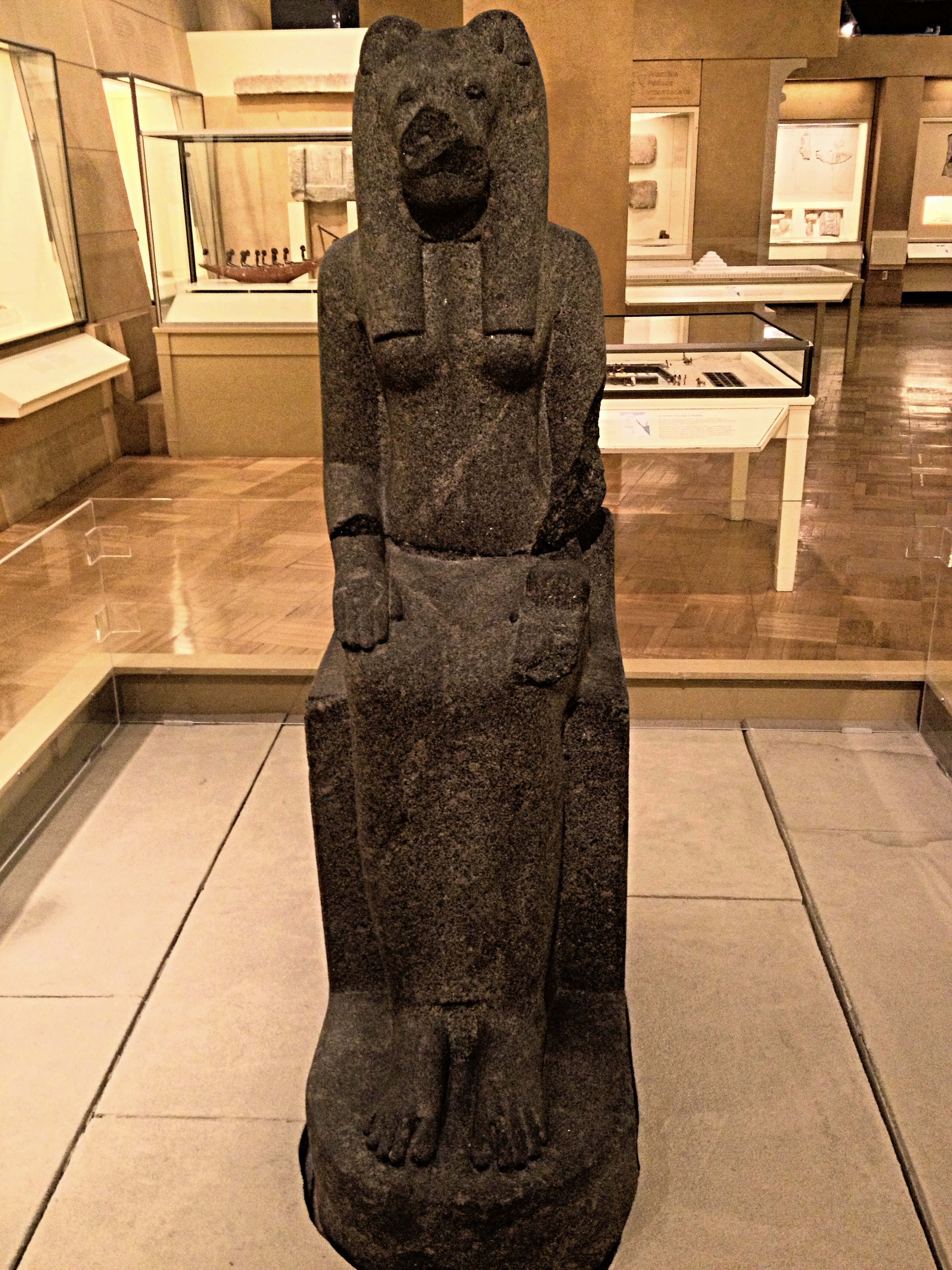 This photo depicts a life-sized granite statue of the Ancient Egyptian goddess, Sekhmet. It is believed to have been one amongst hundreds of similar statues at the Temple of Mut at Karnak, Egypt. The statue dates back to the 18th Dynasty, c. 1360 BCE, and is now part of the Royal Ontario Museum's collection of iconic artefacts.